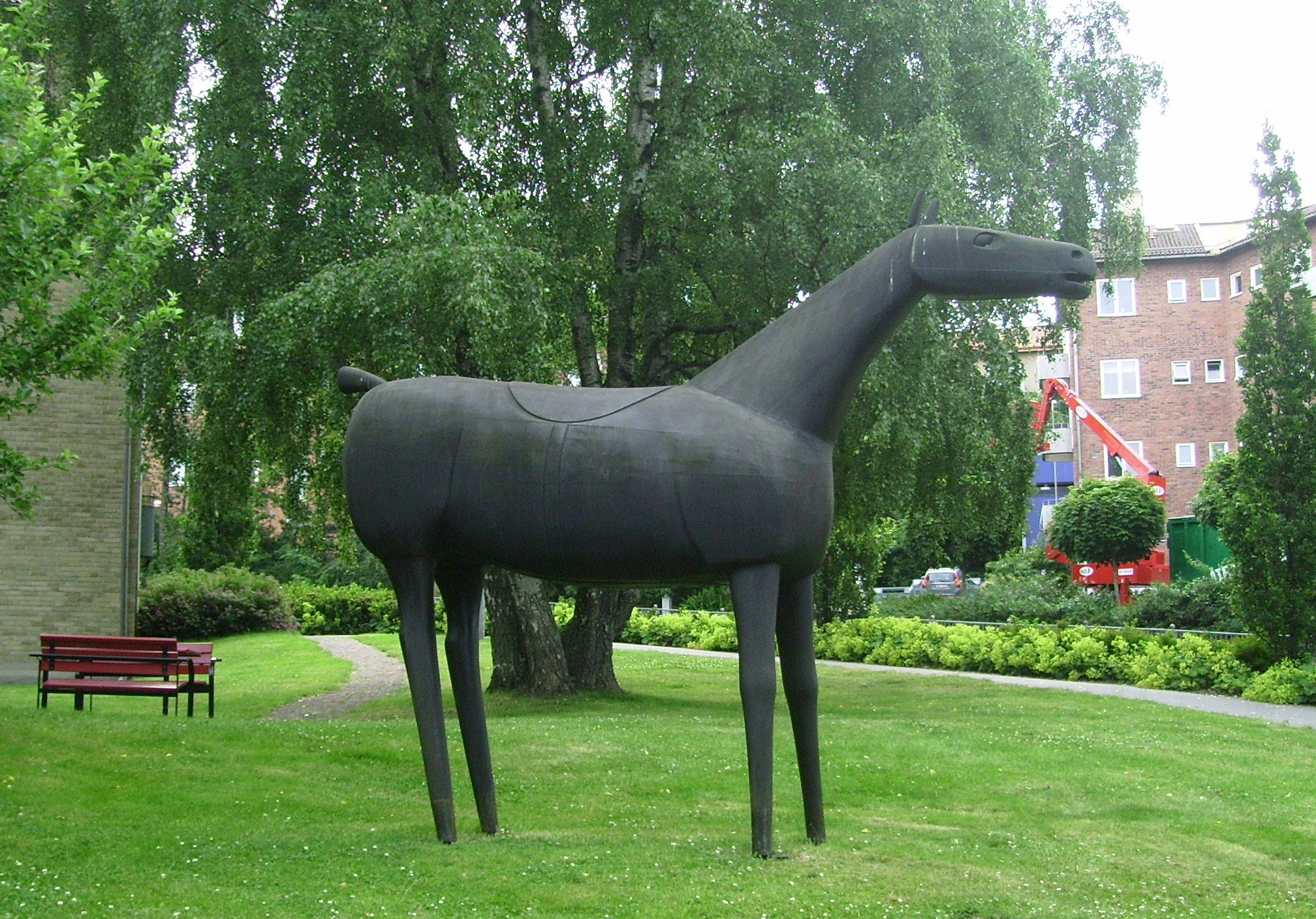 Picture of sculpture Havre och betong in Gothenburg